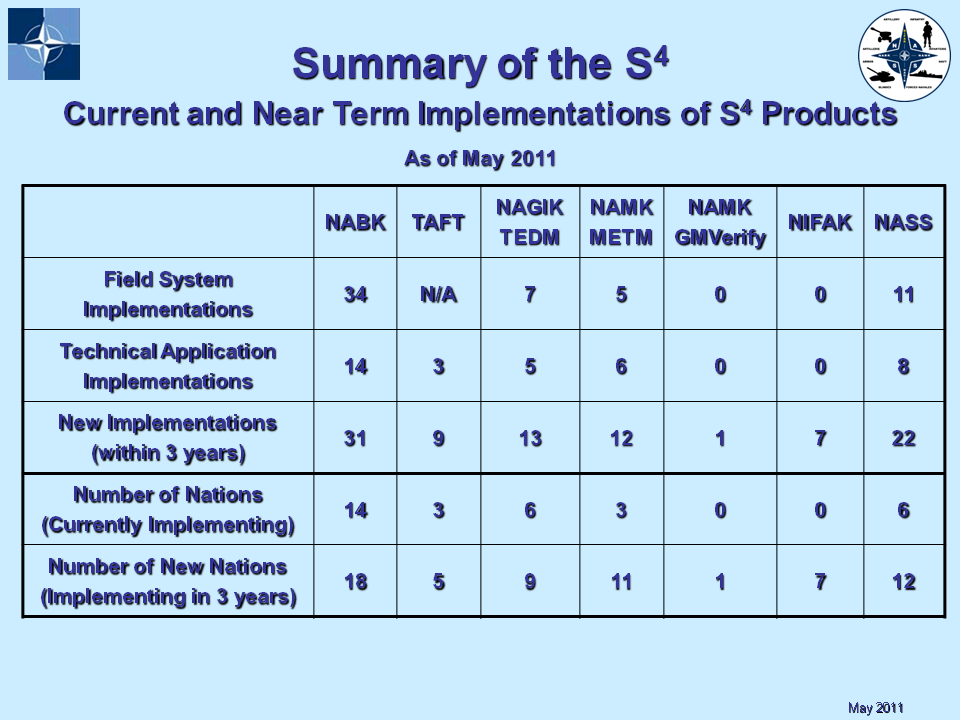 Survey of Systems Integrating S4 Products